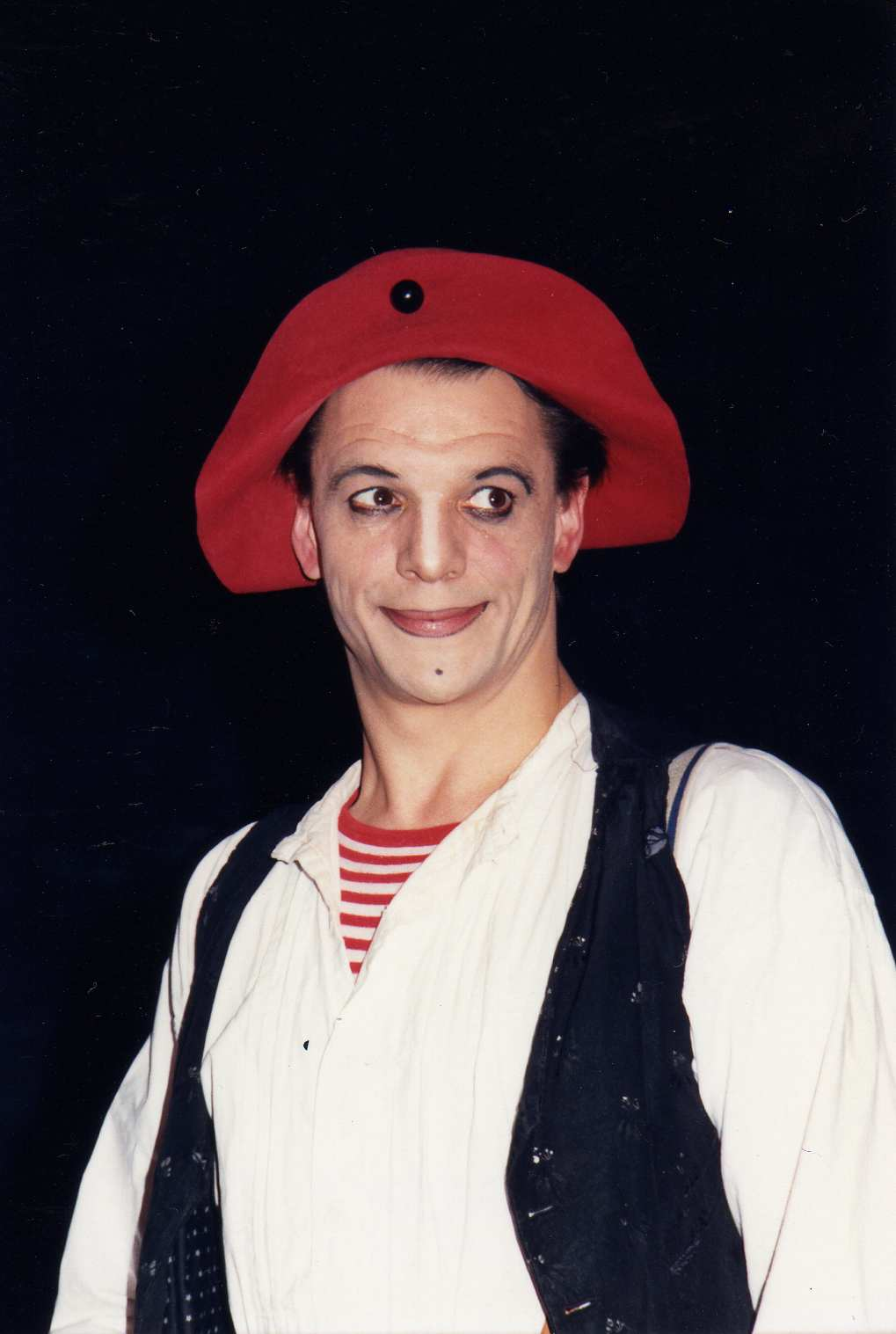 Frieder Nögge, Theater clown